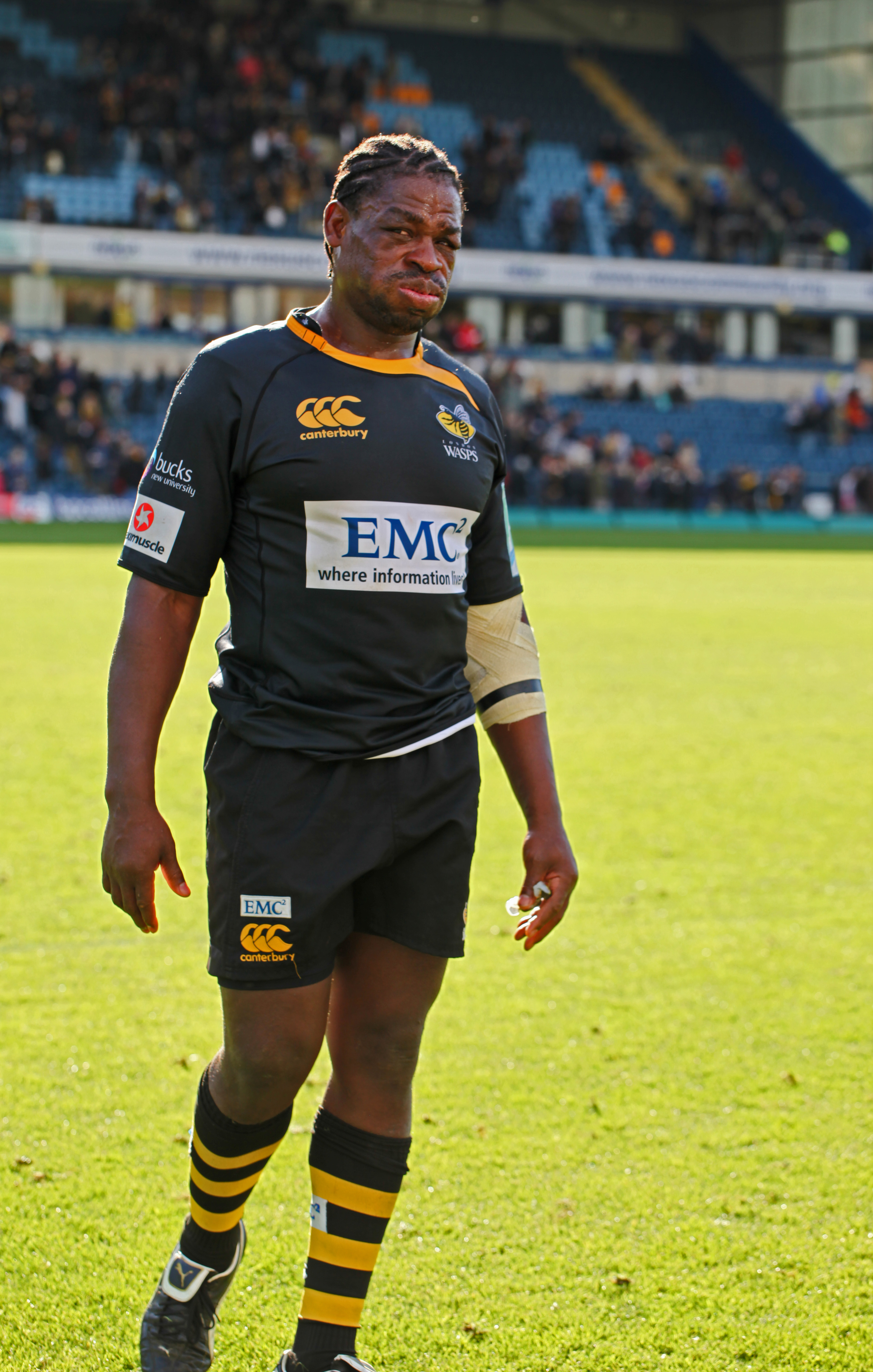 The French rugby union player Serge Betsen, flanker of the London Wasps